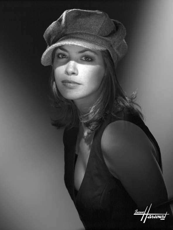 Bérénice Bejo photographed by Studio Harcourt Paris